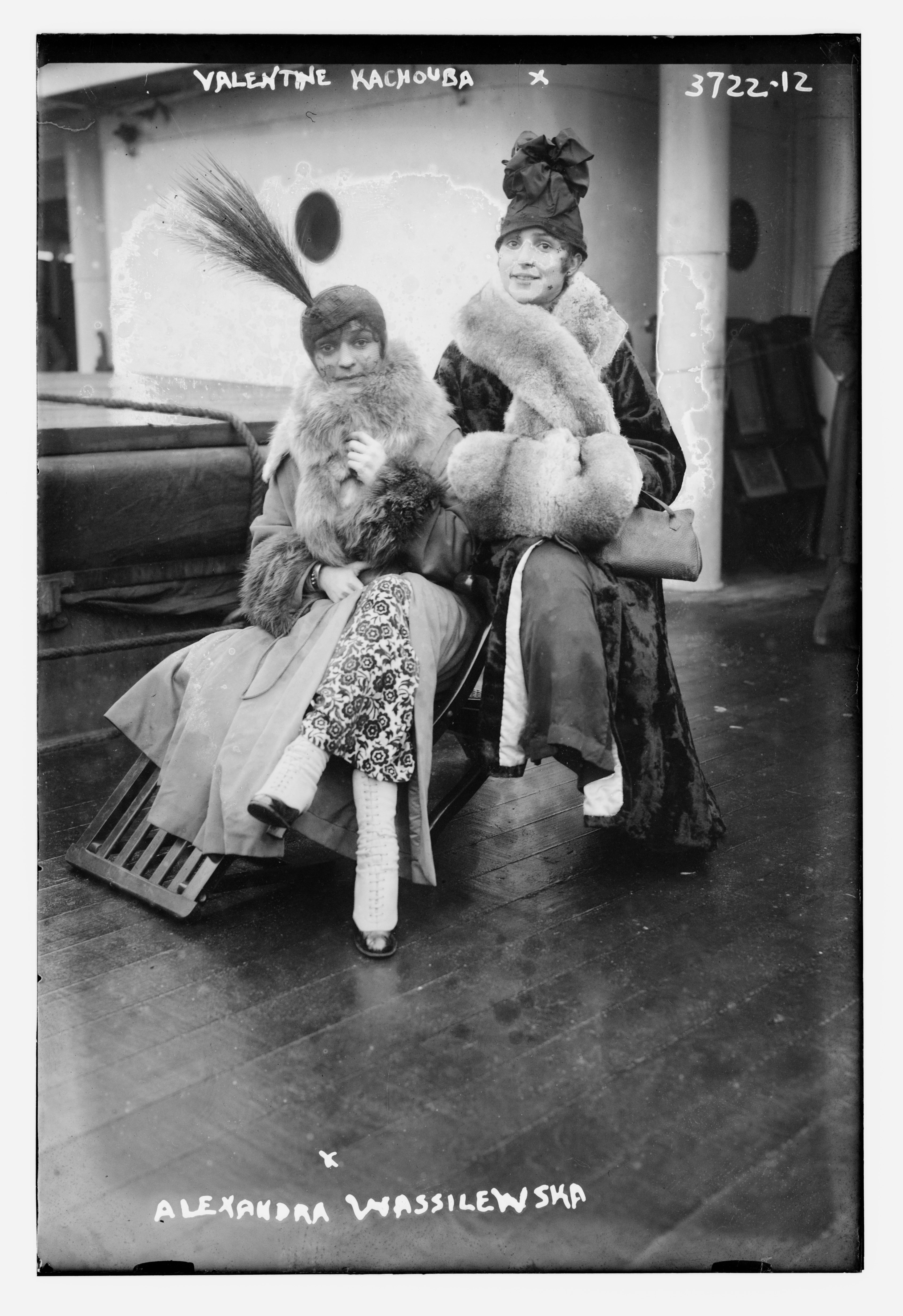 Title: Mme. Valentine Kachouba Abstract/medium: 1 negative : glass ; 5 x 7 in. or smaller.